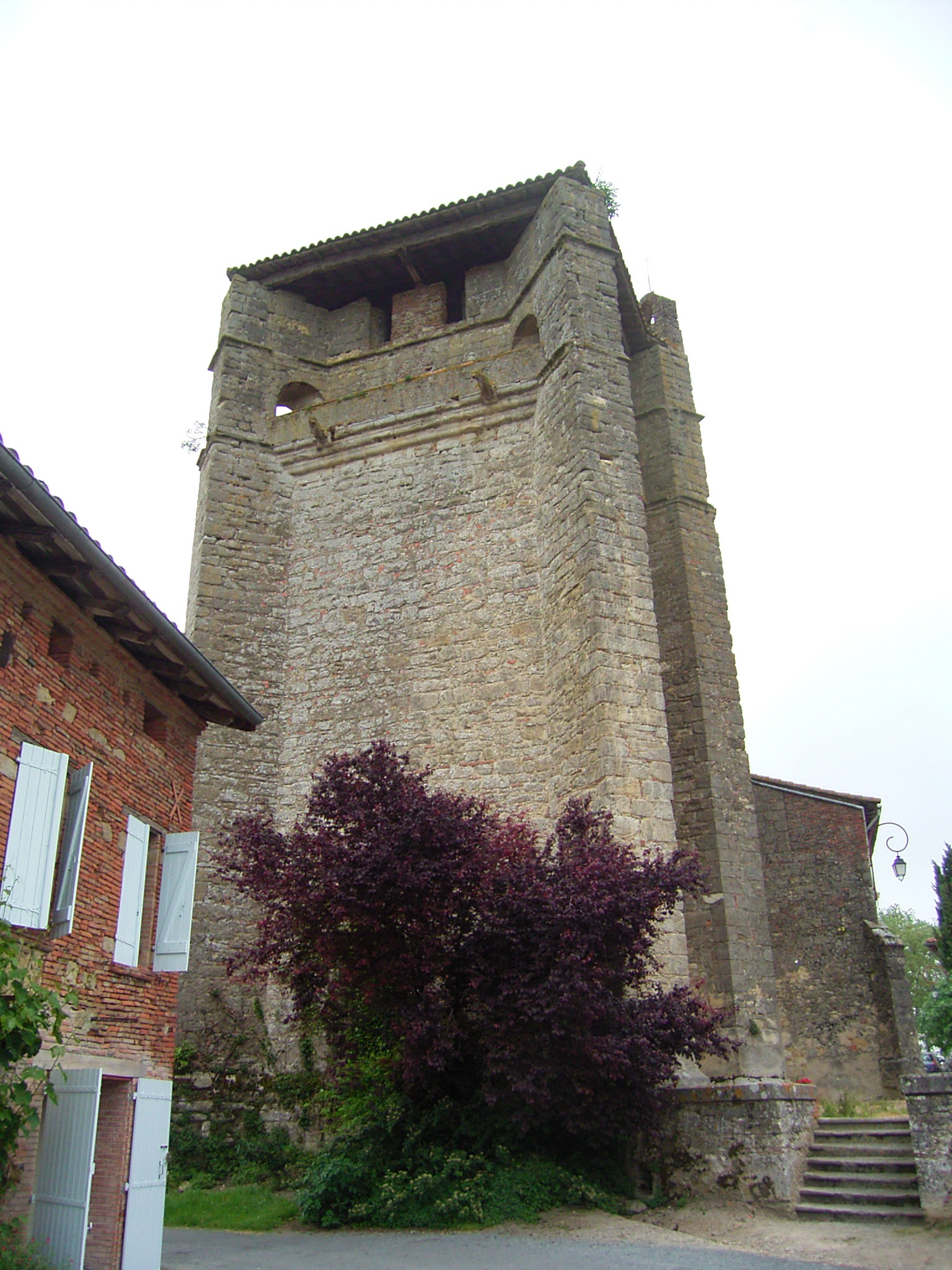 Church of Belcastel, Tarn, France